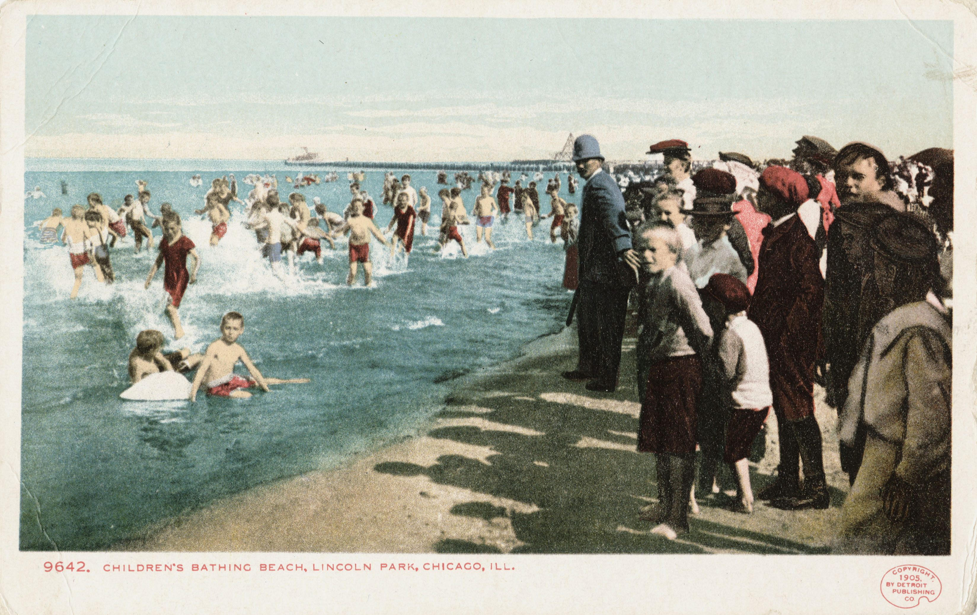 From the University of Maryland Digital Collections website: "A police officer holds a crowd of people back from the water as a group of children play in the water, Lincoln Park, Chicago, Illinois, 1905. Postcard number: 9642."